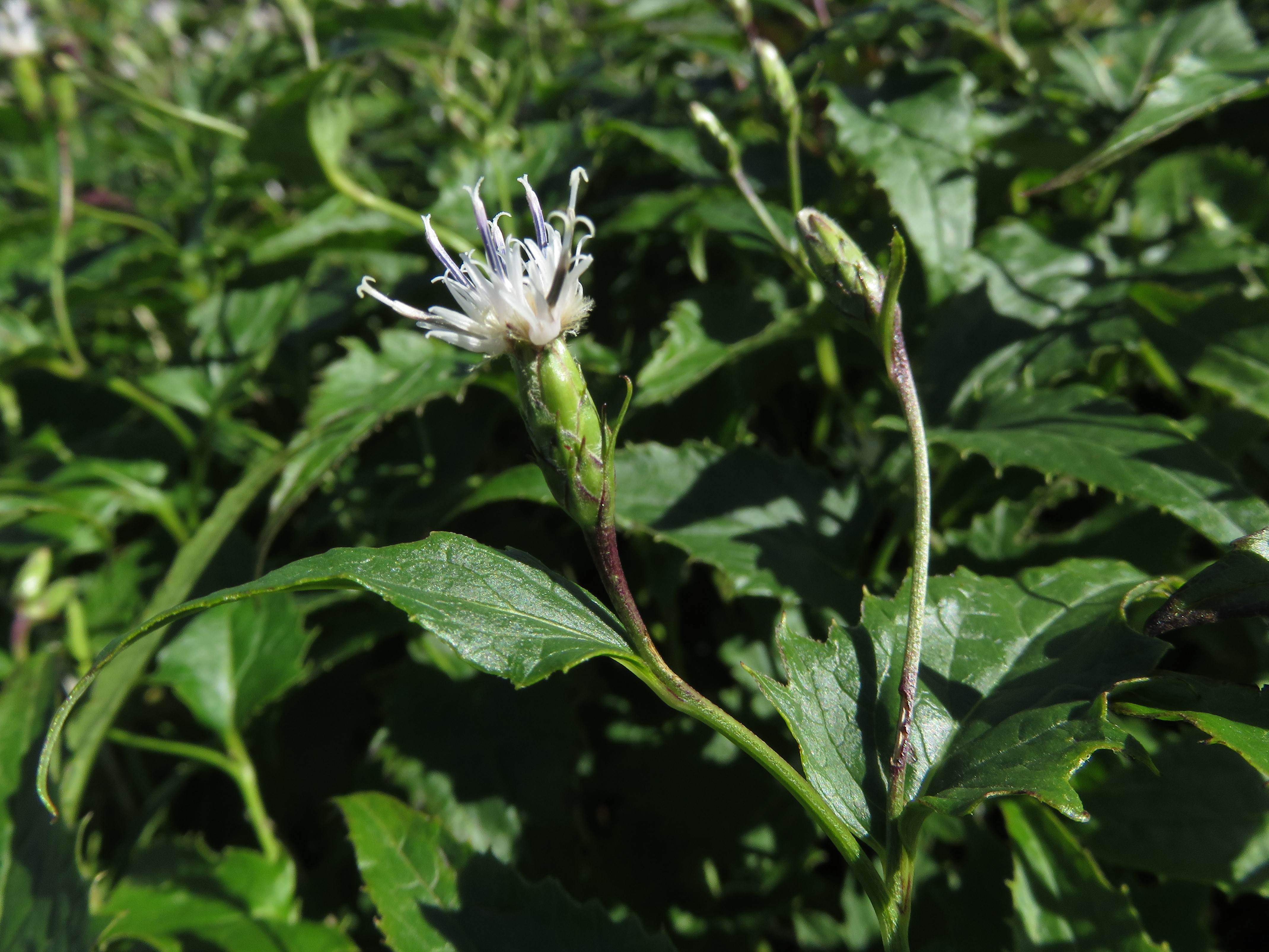 Saussurea sagitta, Mount Iwate, Iwate pref., Japan